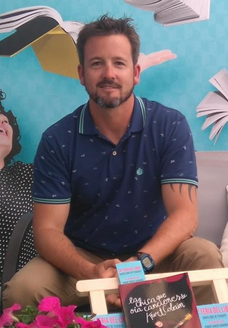 Miguel Aguerralde at the 28th Santa Cruz de Tenerife Book Fair (2016).